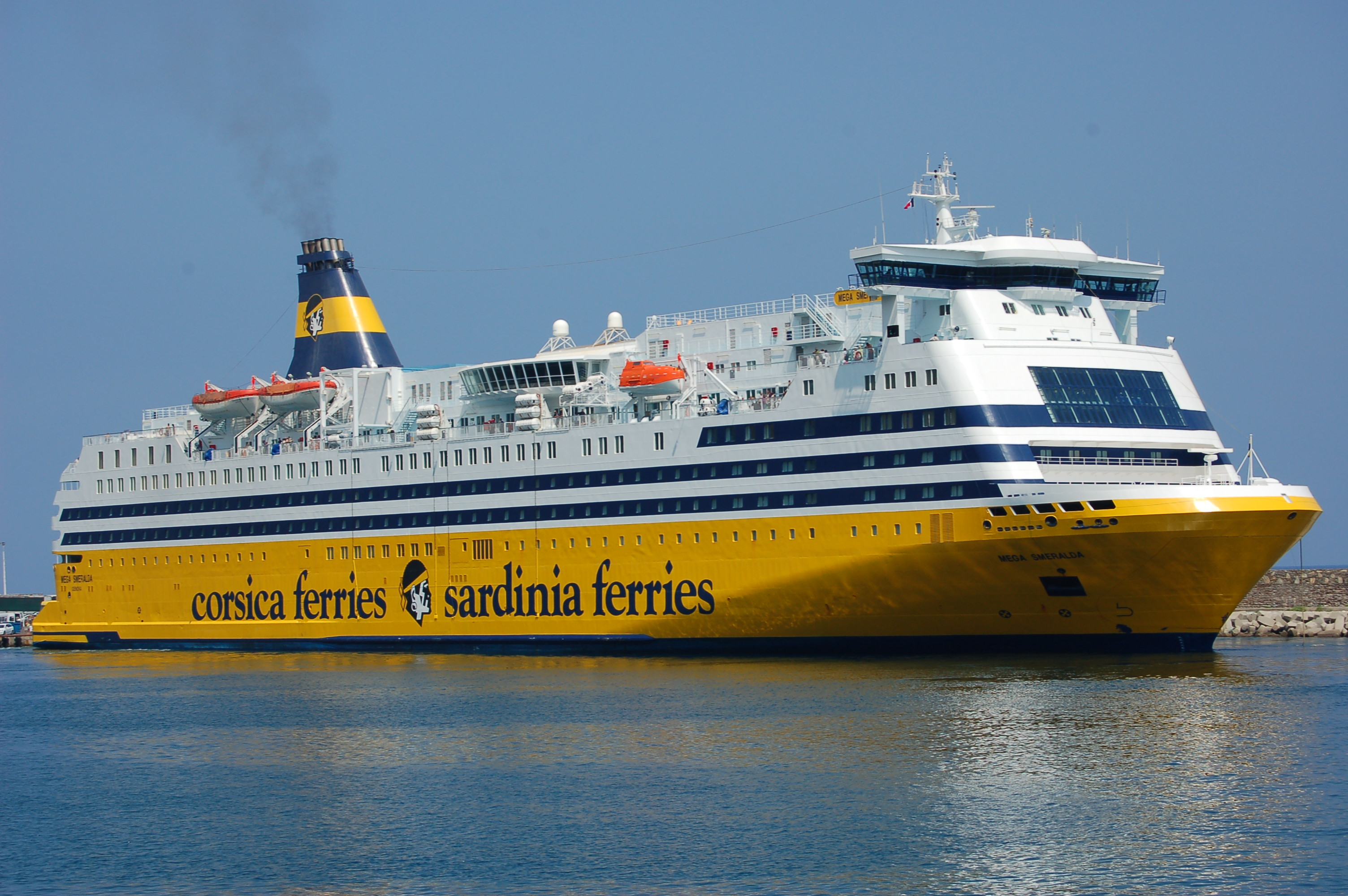 Mega Smeralda in Bastia harbour